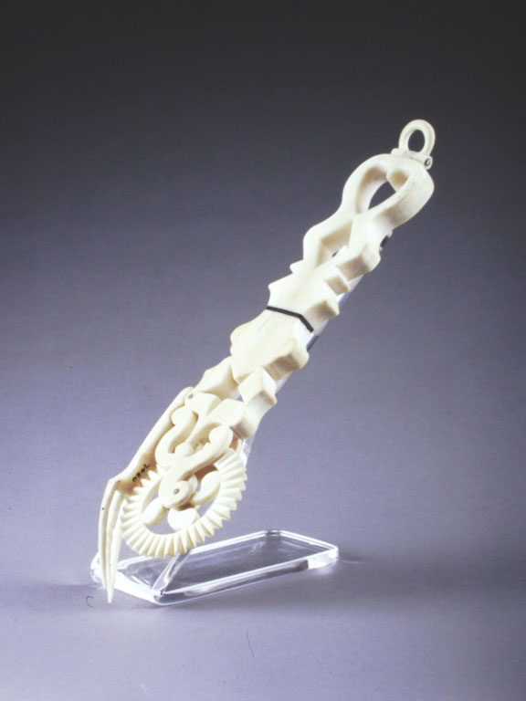 A pie crimper in the permanent collection of The Children’s Museum of Indianapolis